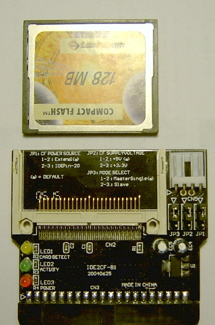 A CompactFlash-to-IDE-adapter